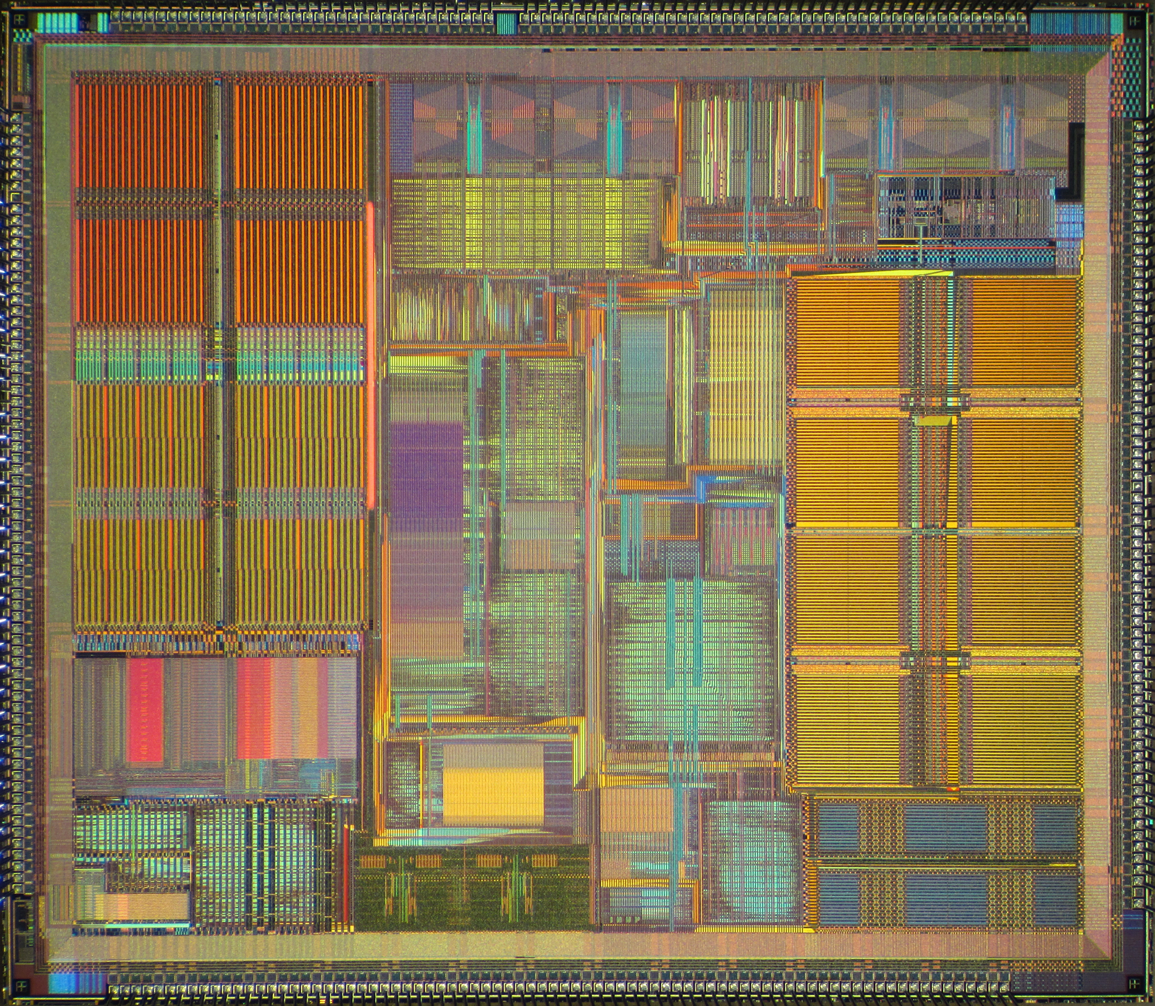 Die shot of IDT WinChip microprocessor (C6-PSME225GA).